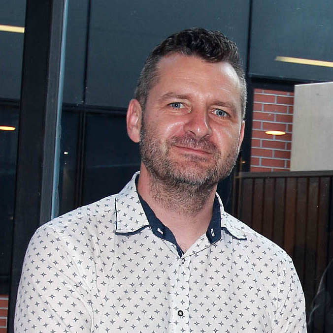 Geraint Lewis is an Astrophysicist at University of Sydney.